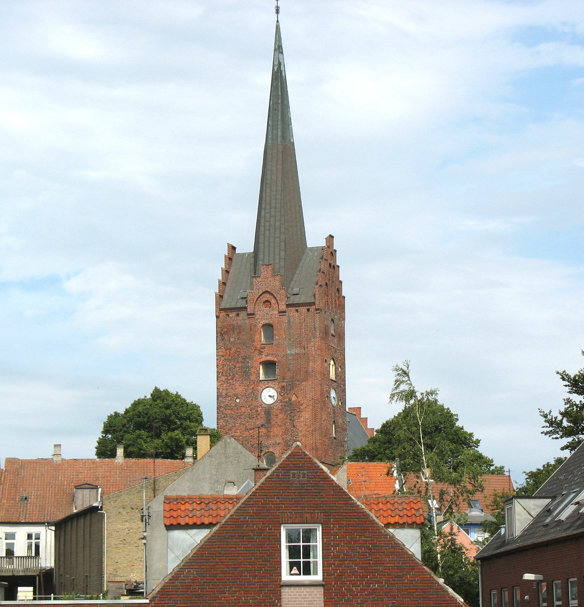 View to the tower of the church "Nakskov Kirke" located in the town "Nakskov". The location is on the island Lolland in east Denmark.